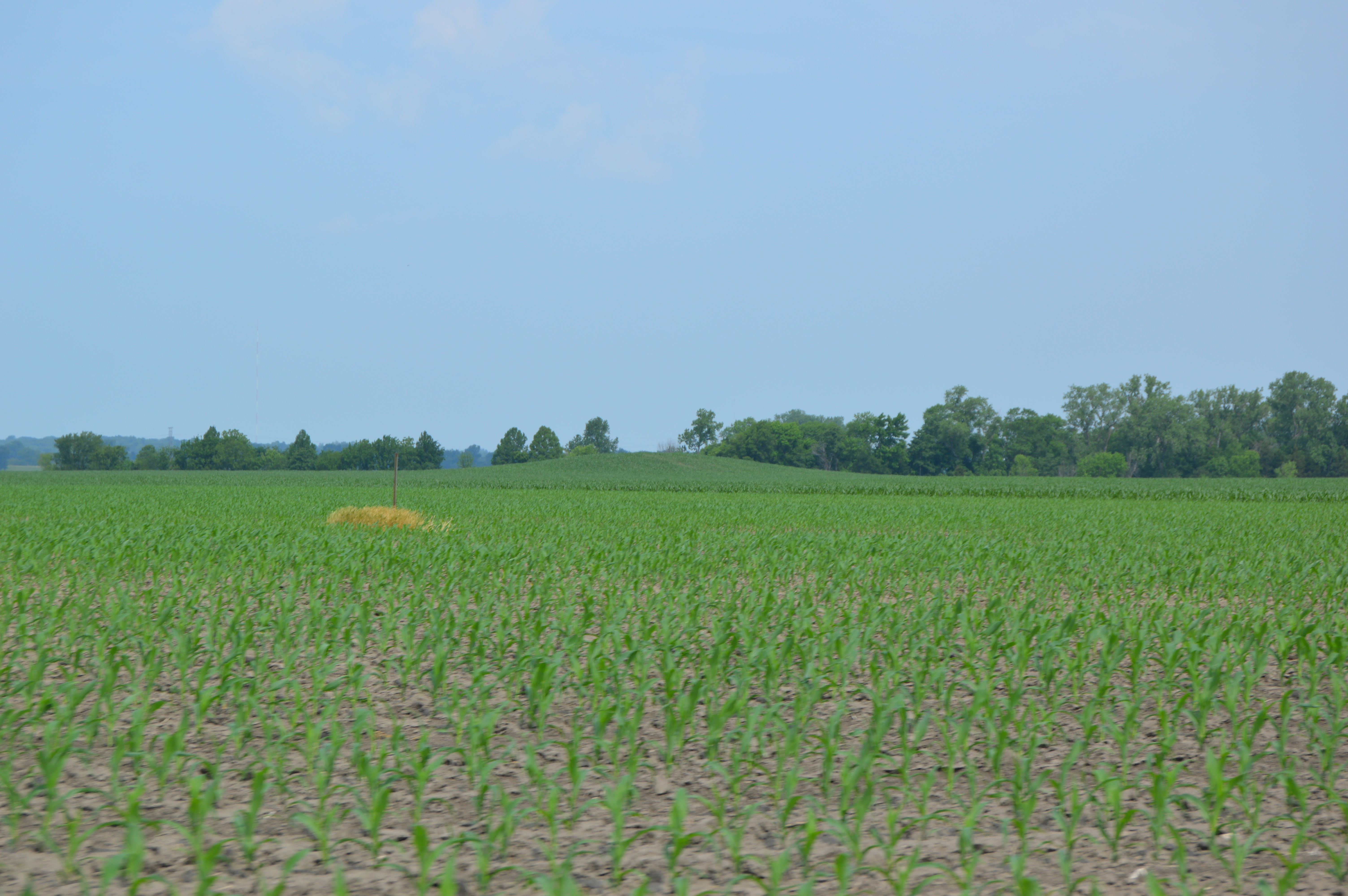 Overview of the Lunsford-Pulcher Archeological Site, a major Mississippian site presently located west of Oklahoma Hill Road on the Monroe/St. Clair county line near Columbia, Illinois, United States. One of the area's most important archaeological sites, it is listed on the National Register of Historic Places.